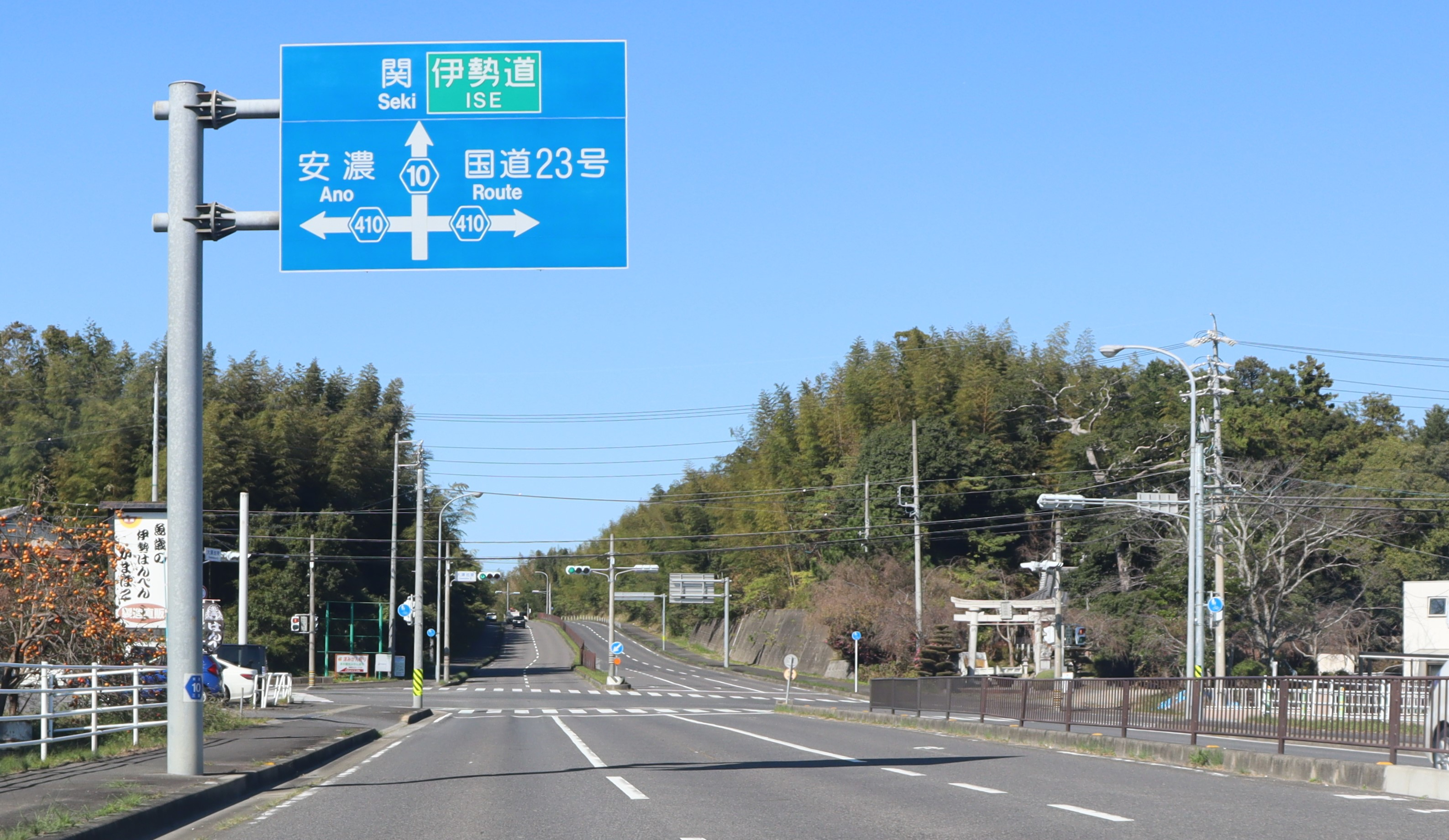 Mie Prefectural Road Route 10 and Mie Prefectural Road Route 410 in Ozatokubotacho, Tsu, Mie Prefecture, Japan.